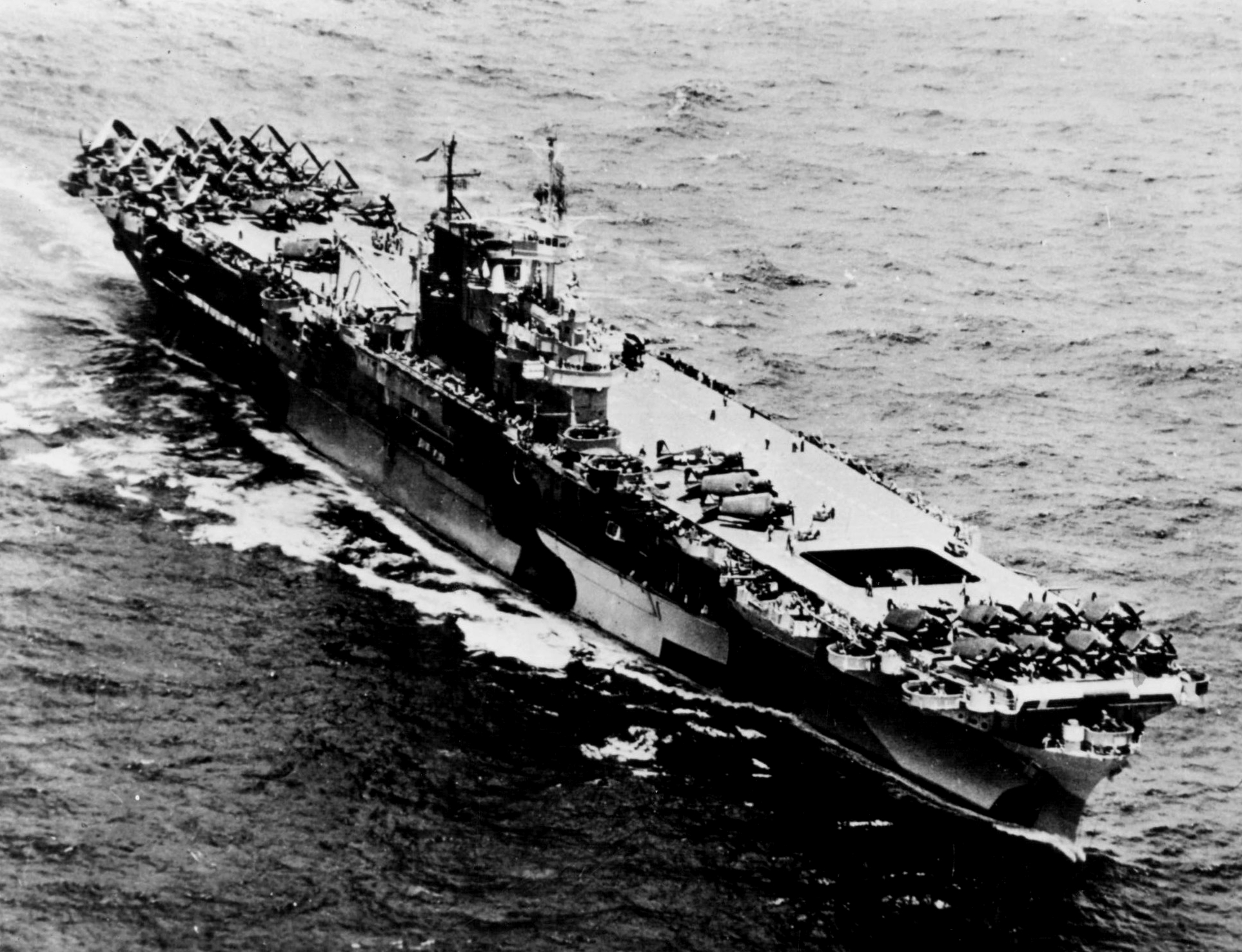 The U.S. Navy aircraft carrier USS Enterprise (CV-6) departs Pearl Harbor on 16 August 1944 with her newly applied dazzle Camouflage Measure 33 Design 4A. On deck are aircraft of Carrier Air Group 20. Bombing Squadron VB-20 was the first to operate the Curtiss SB2C Helldiver from the Big E.